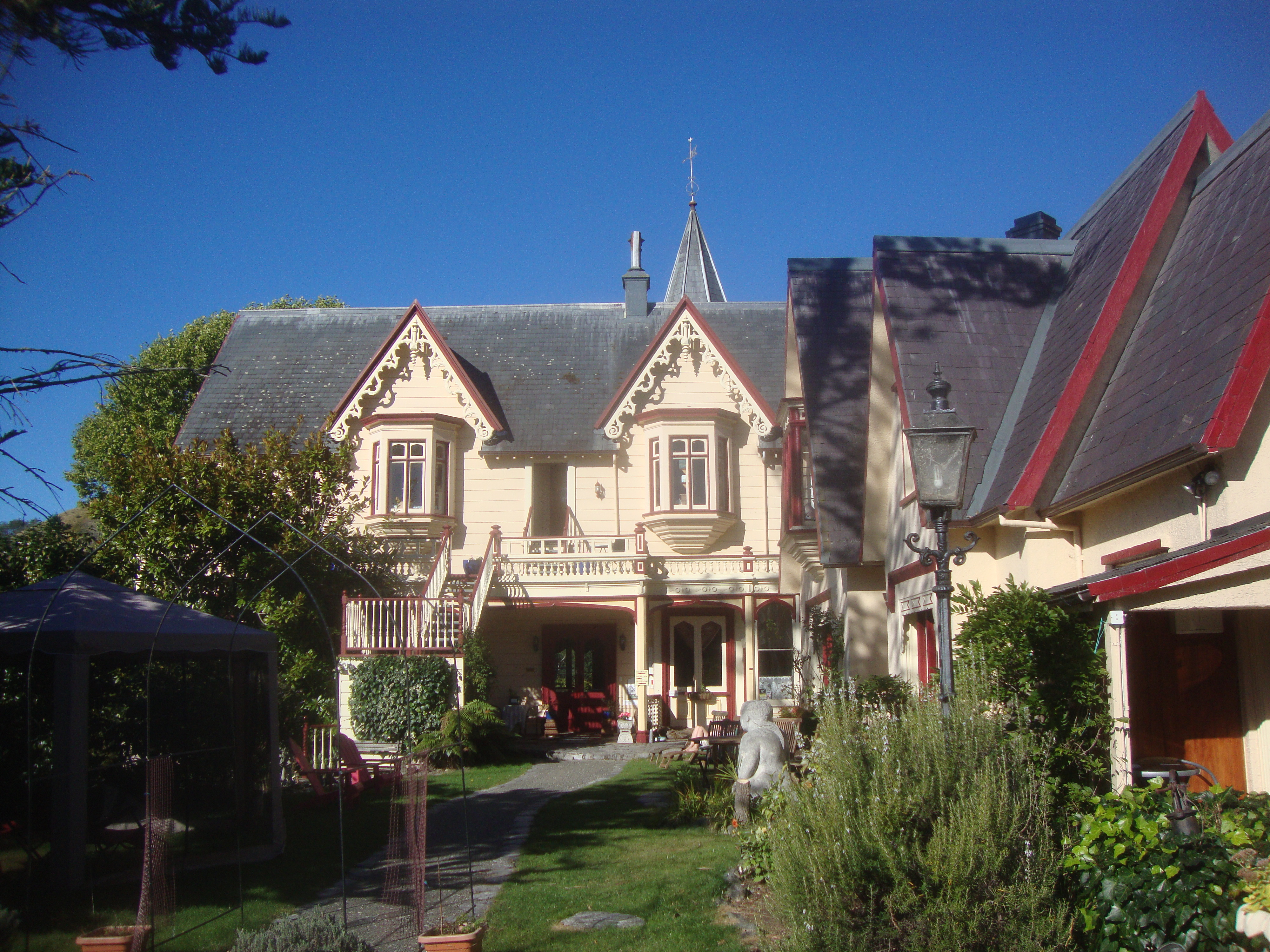 Warwick House in Nelson in April 2012.